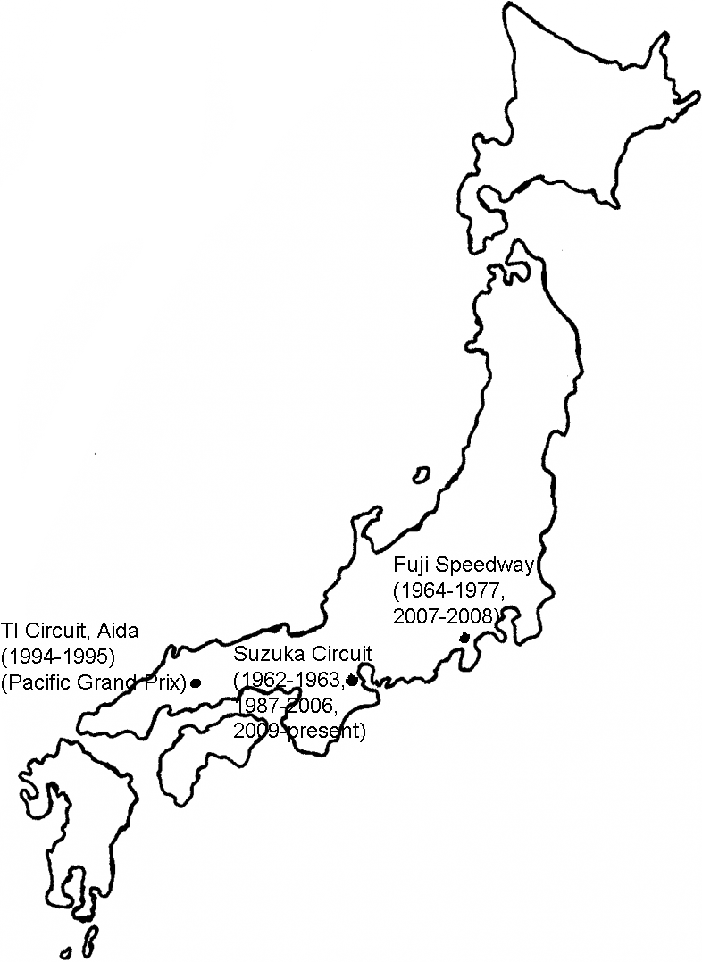 Locations of Formula One Grand Prix in Japan.